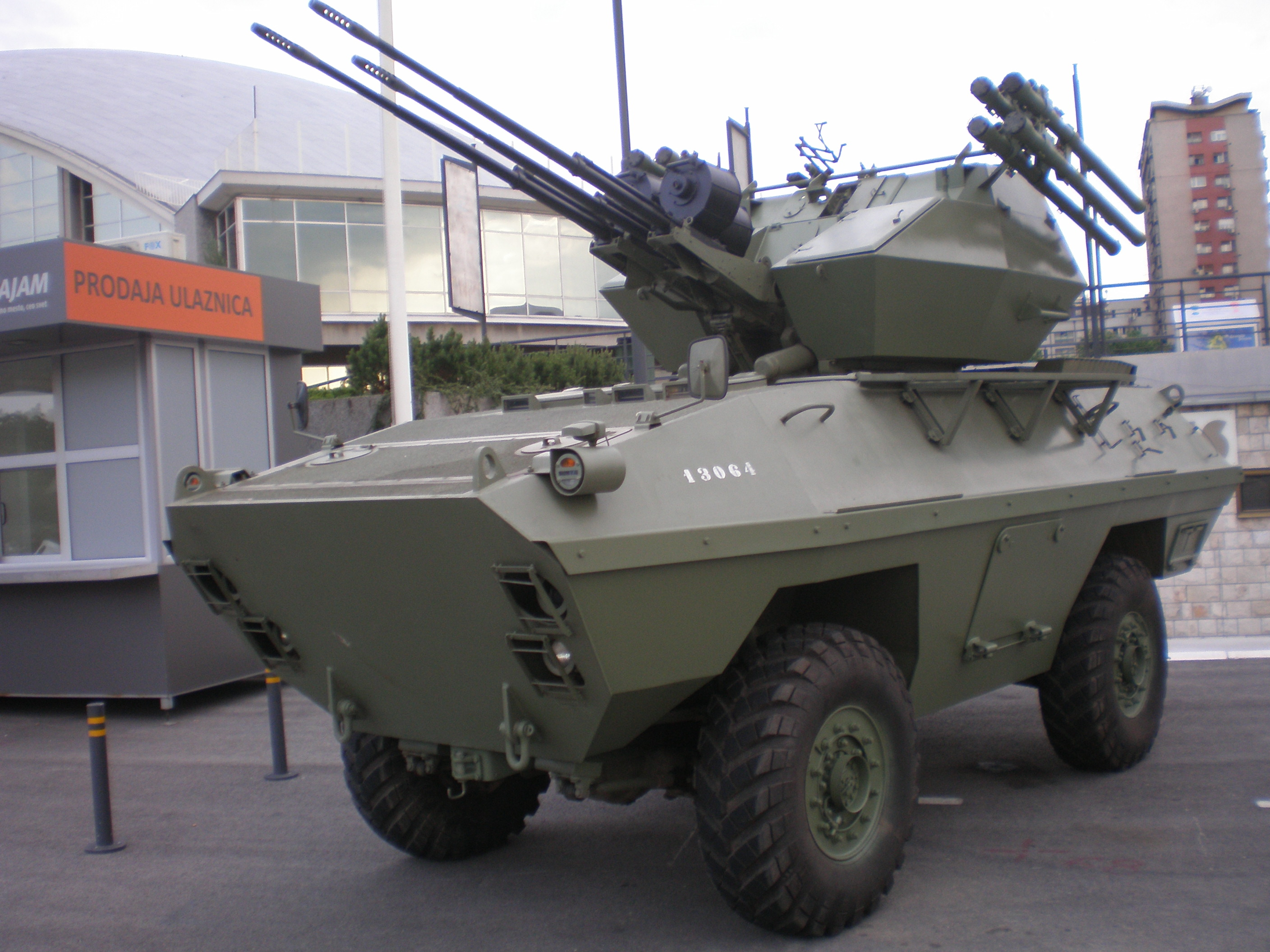 HS M09 hybrid air-defense system on BOV-3 vehicle on display at "Partner 2009" military fair.